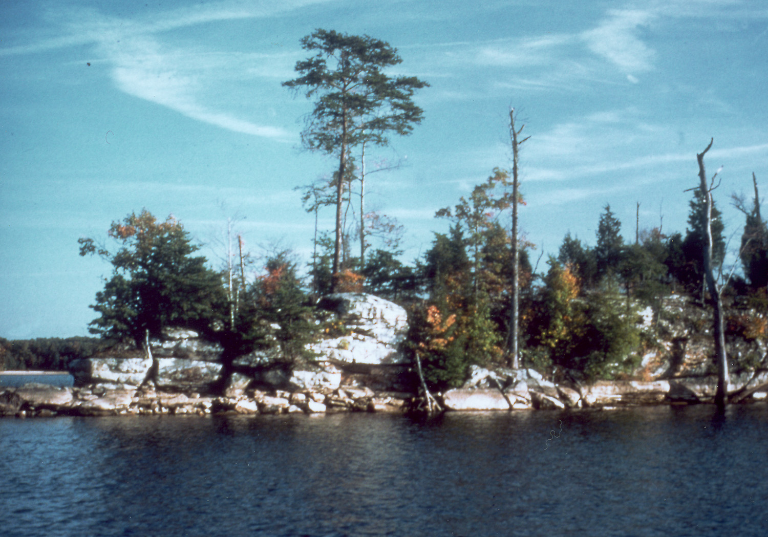 Laurel River Lake in Corbin County, Kentucky, USA. The lake is impounded behind Laurel River Dam on the Laurel River, a tributary of the Cumberland River. The U.S. Army Corps of Engineers completed the dam in in 1974. The dam provides hydroelectric power generation, recreation, and flood control on the Laurel and Cumberland Rivers. The lake is said to be one of the deepest, cleanest lakes in Kentucky.